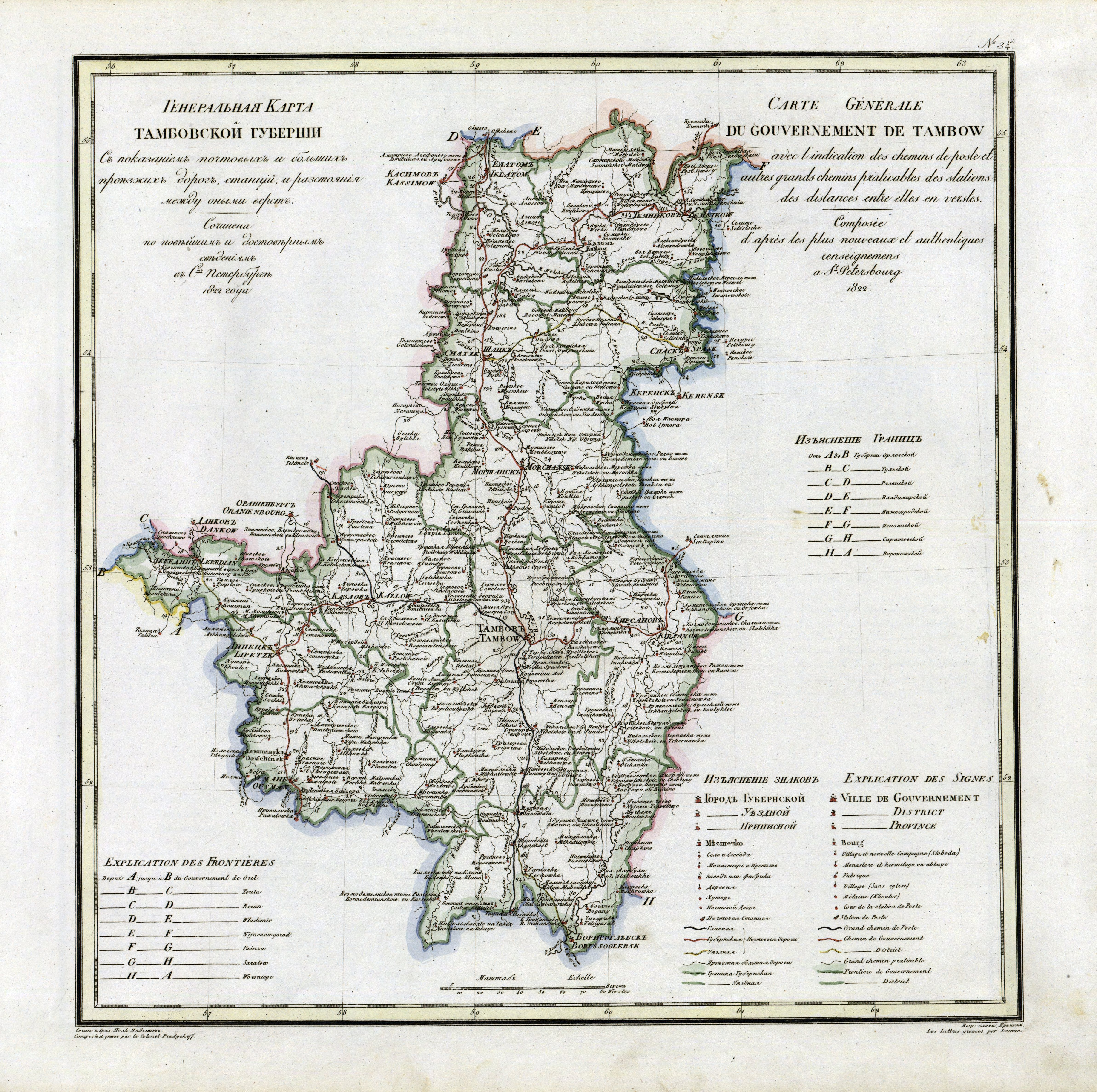 Tambov governorate